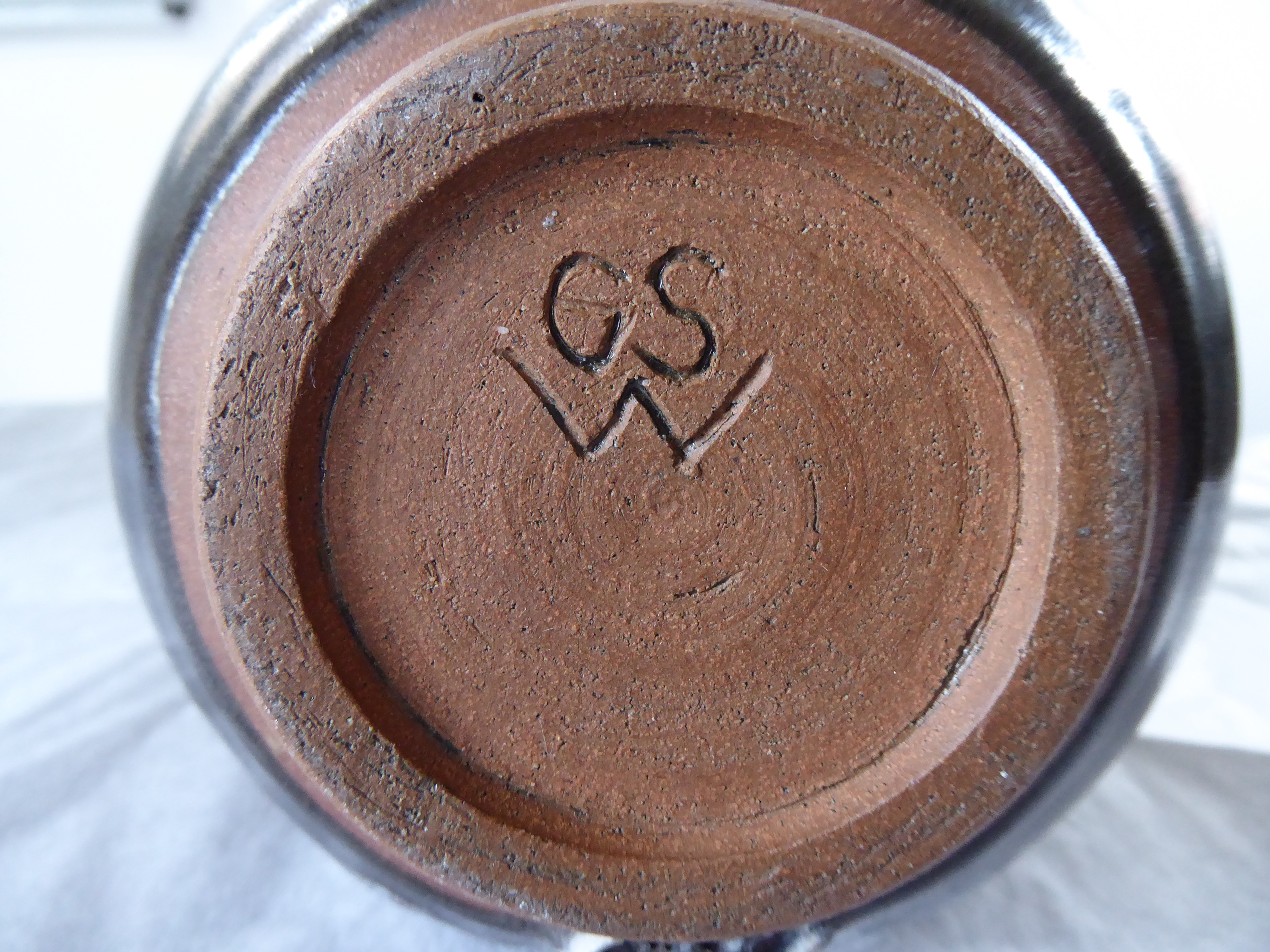 engraving signature of Gertrud Schwarze